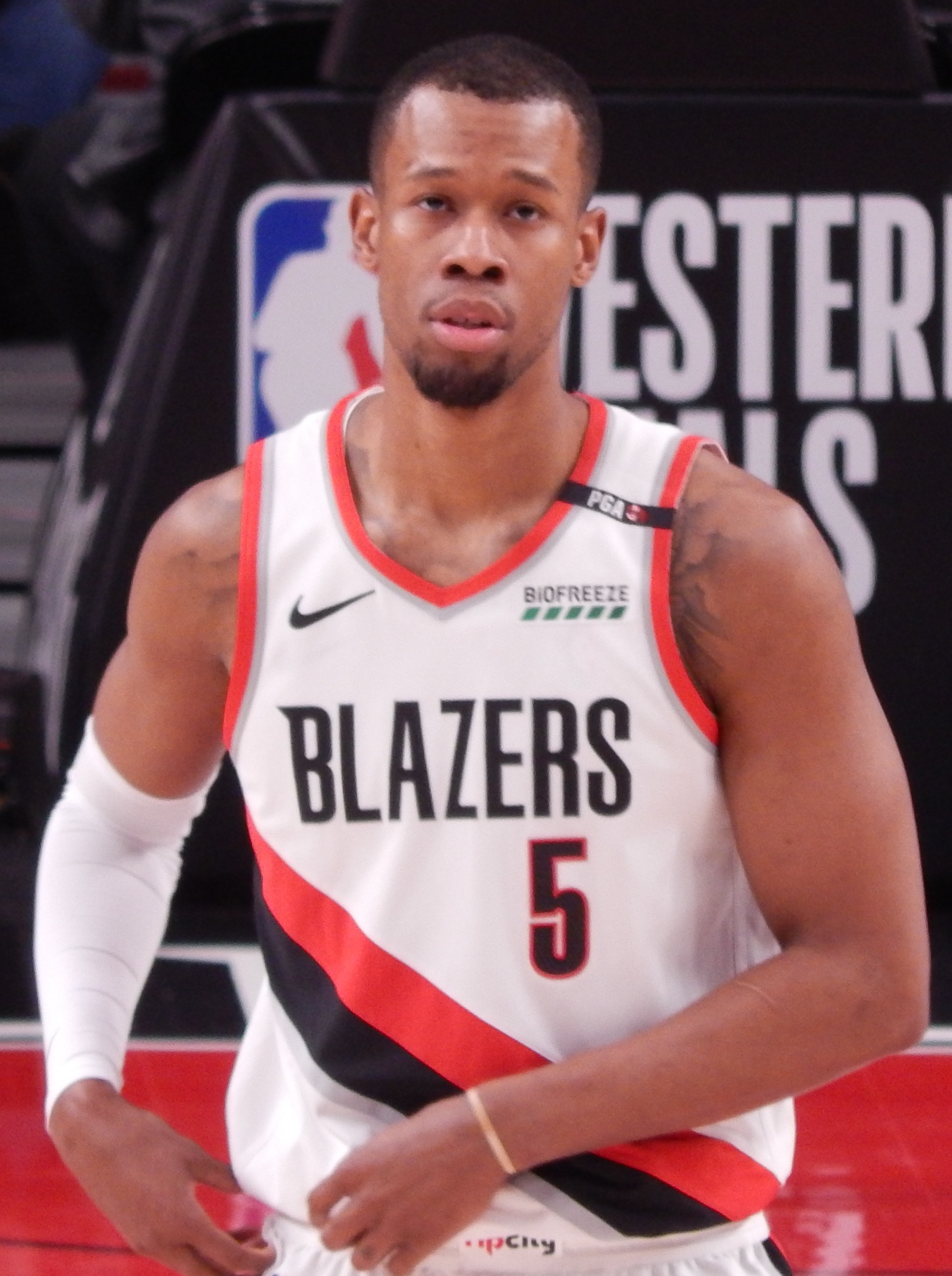 Rodney Hood #5 of Portland Trail Blazers waits for play to resume in a game against the Golden State Warriors on May 18, 2019 at Moda Center in Portland, Oregon.